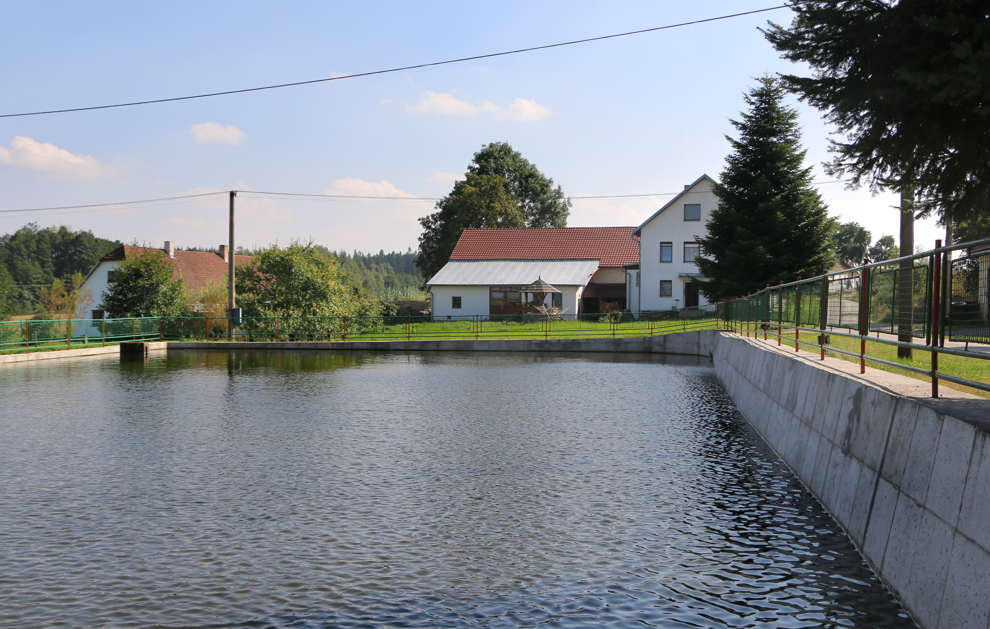 Common pond in Bělá, Czech Republic.